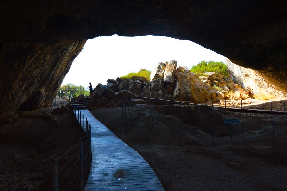 Cave Frahthi - Argolida Greece